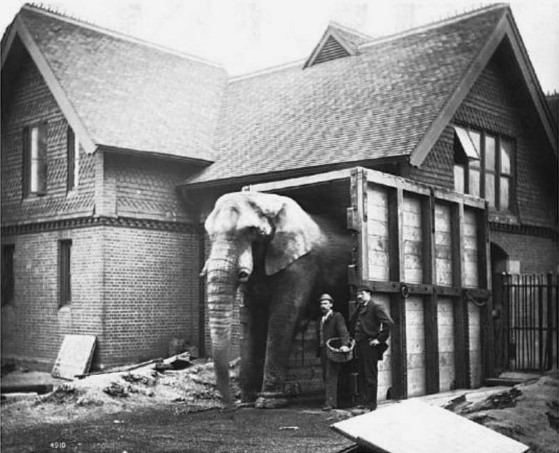 After weeks of trying, Jumbo is persuaded to walk through the box outside his den (London Zoo)